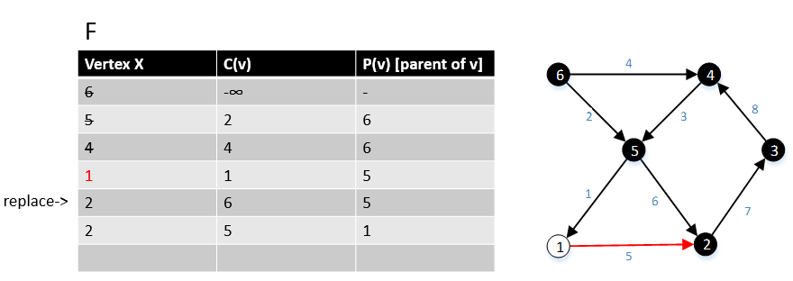 MBSA-GT-example-3